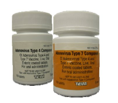 Extracted from the PDF. Shows two bottles of the TEVA adenovirus and monovirus vaccines made for the US Military.